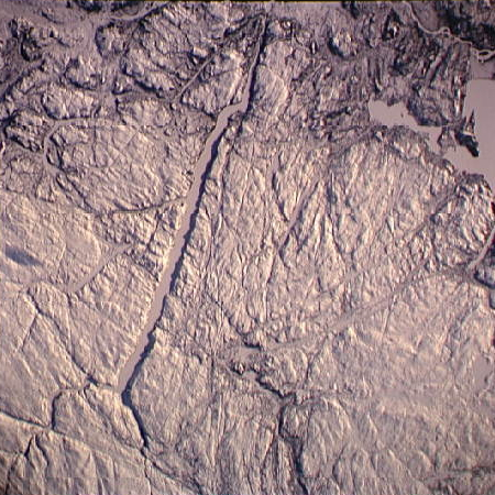 This is a view of Harp Lake, Labrador, as seen from space. The original image has been cropped. Image courtesy of the Image Science & Analysis Laboratory, NASA Johnson Space Center. The Gateway to Astronaut Photography of Earth Image no. STS059-211-68